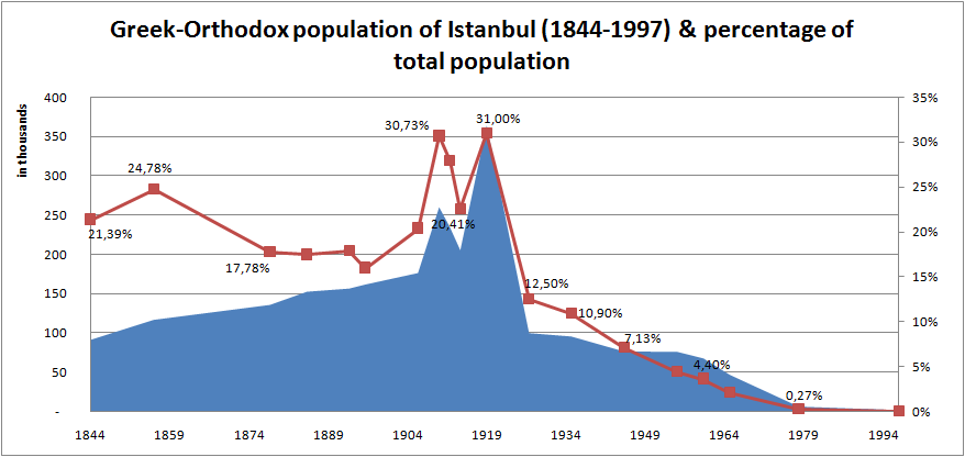 Greek-Orthodox population of Istanbul (former Constantinople) 1844-1997